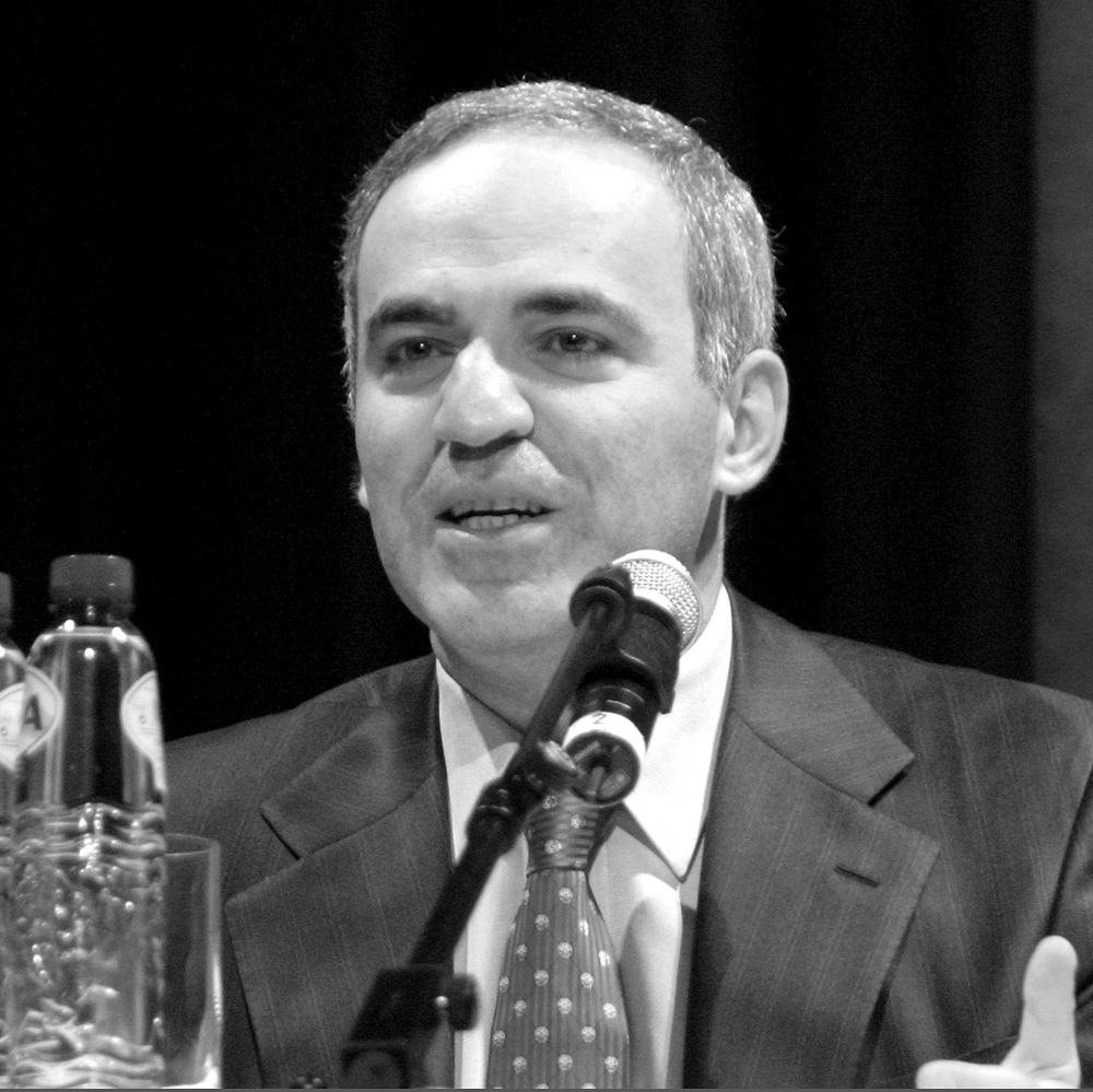 Garry Kasparov, russian chess grandmaster and politician, in Cologne, Germany